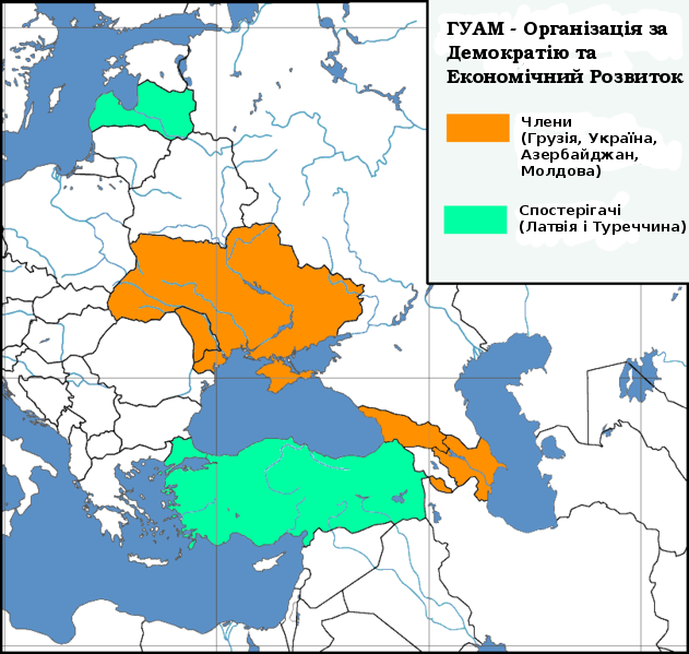 GUAM member and observer states